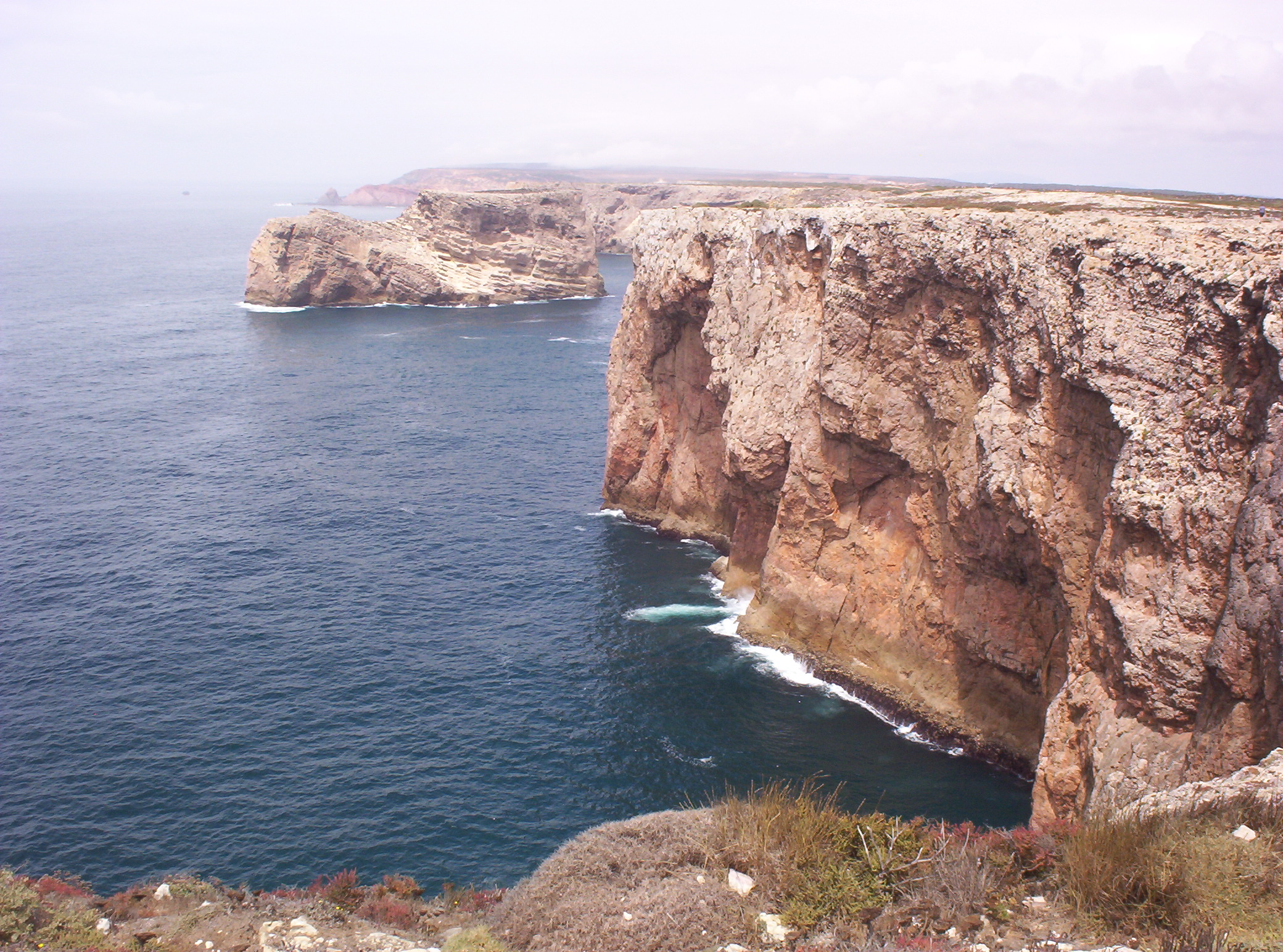 Coastal cliff immediately north of Cape St. Vincent (Cabo de São Vicente), the southwestern-most extremity of Portugal. The cliff consists of Lower Jurassic dolomitic limestones.[1] The small island in the midground is the Pedra das Gaivotas (“seagull’s rock”), the headland which is visible behind it in the background is the Ponta do Telheiro. ↑ a b see “Geological background” in: Marisa E.N. Borges, James B. Riding, Paulo Fernandes, Zélia Pereira: The Jurassic (Pliensbachian to Kimmeridgian) palynology of the Algarve Basin and the Carrapateira outlier, southern Portugal. Review of Palaeobotany and Palynology 163(3–4):190–204, (alternative download source: ResearchGate)